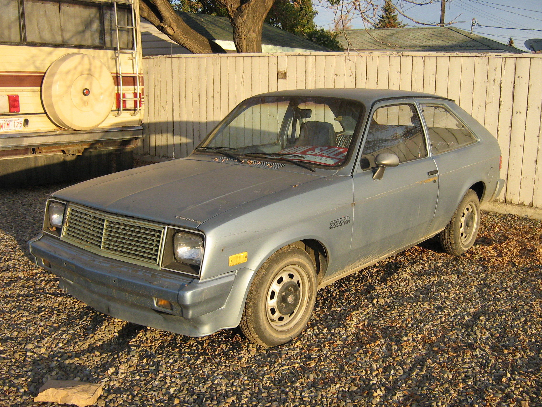 1986 Pontiac Acadian Scooter. Acadian was Pontiac's version of the Chevette in Canada.1986 Pontiac Acadian Scooter